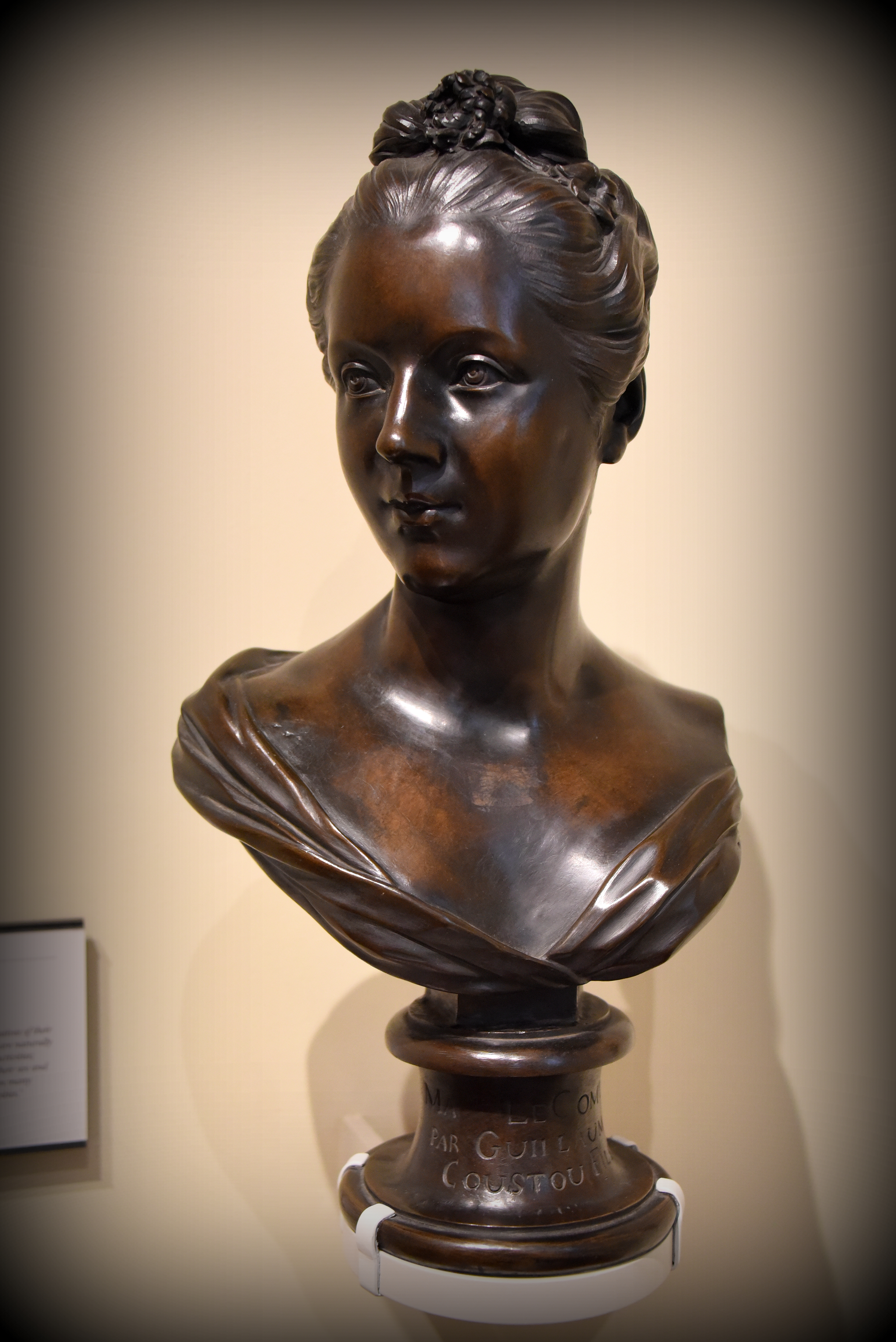 Bronze bust of Marguerite Le Comte, 1750 CE. By Guillaume Coustou II. From Paris, France. The Victoria and Albert Museum, London. Purchased with funds from the John Webb Trust and the Bryan Bequest.